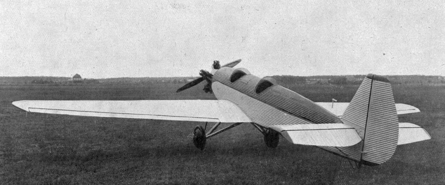 Junkers A 50 Junior photo from L'Aéronautique July,1929